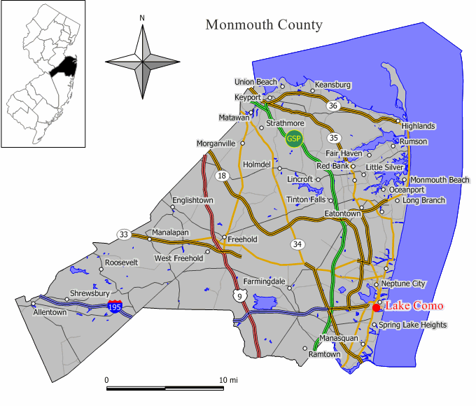 Original work by Jim Irwin, December 2005. Map of Lake Como in Monmouth County, New Jersey.